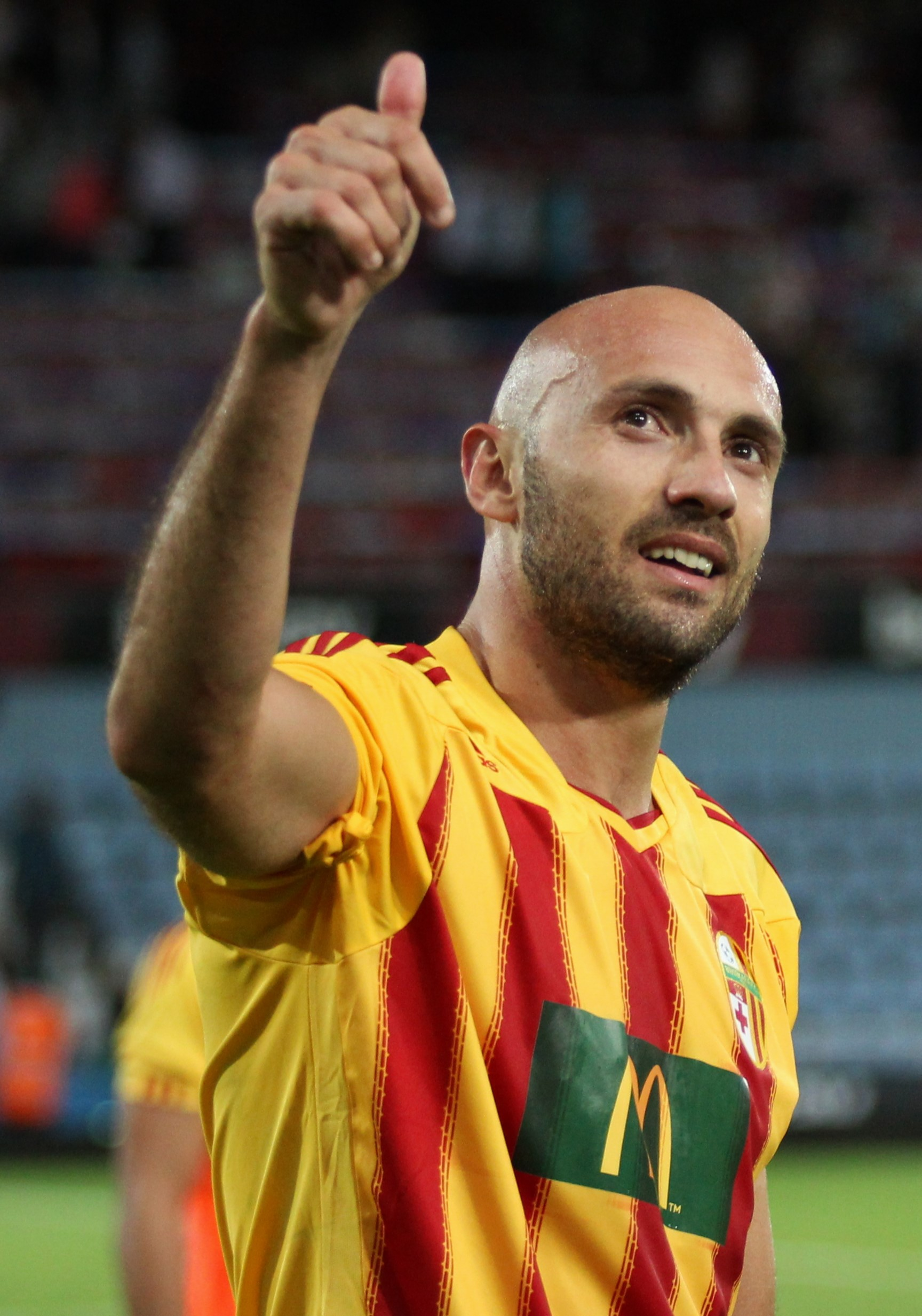 Mauricio Mazzetti of Birkirkara thanks the fans at the full time whistle.